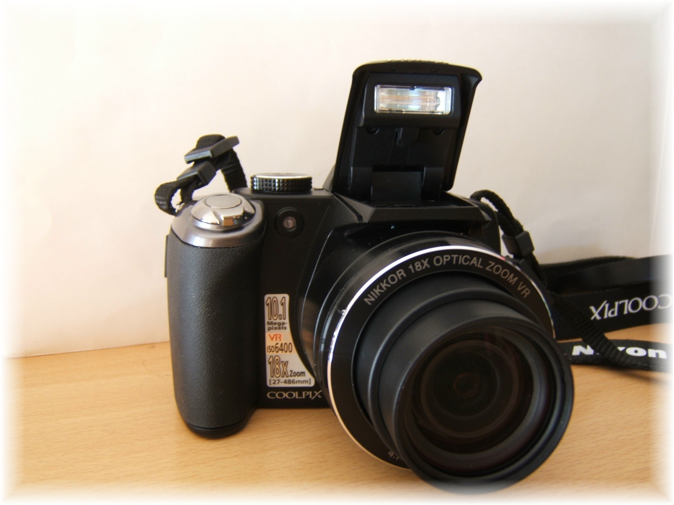 Nikon Coolpix P80 front with open flash